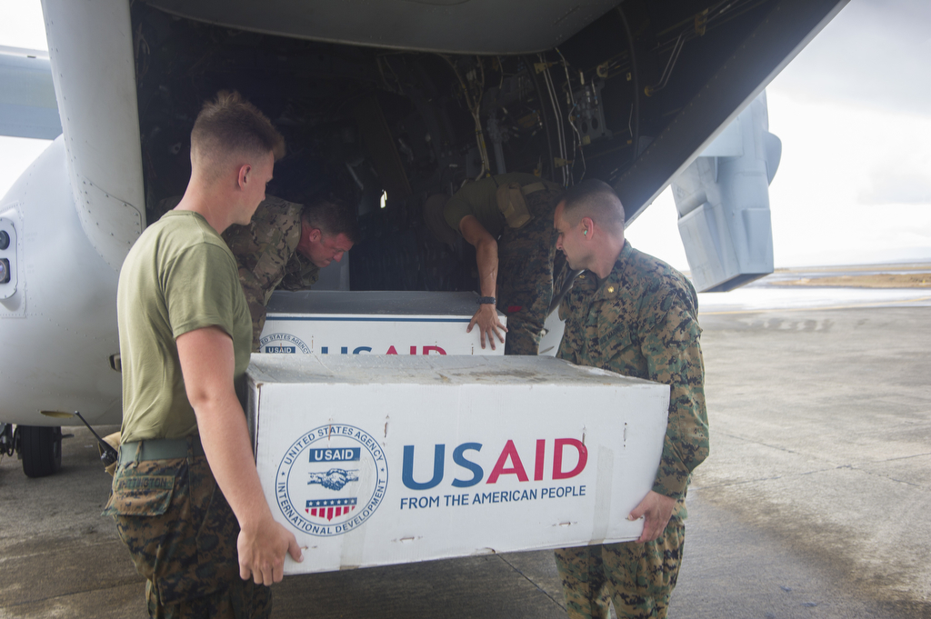 Marines and U.S. Army Soldiers load supplies onto an MV-22 Osprey assigned to the Marine Medium Tiltrotor Squadron 261, 1st Marine Aircraft Wing, in support of Operation Damayan. The George Washington Strike Group supports the 3rd Marine Expeditionary Brigade to assist the Philippine government in response to the aftermath of Super Typhoon Haiyan/Yolanda in the Republic of the Philippines. (U.S. Navy photo by Mass Communication Specialist 3rd Class Ricardo R. Guzman/RELEASED) Date Taken:11.14.2013 Date Posted:11.14.2013 14:55 Photo ID:1052381 VIRIN:131114-N-BX824-291 Resolution:1024x681 Size:590.96 KB Location:USS GEORGE WASHINGTON (CVN 73), PH Read more